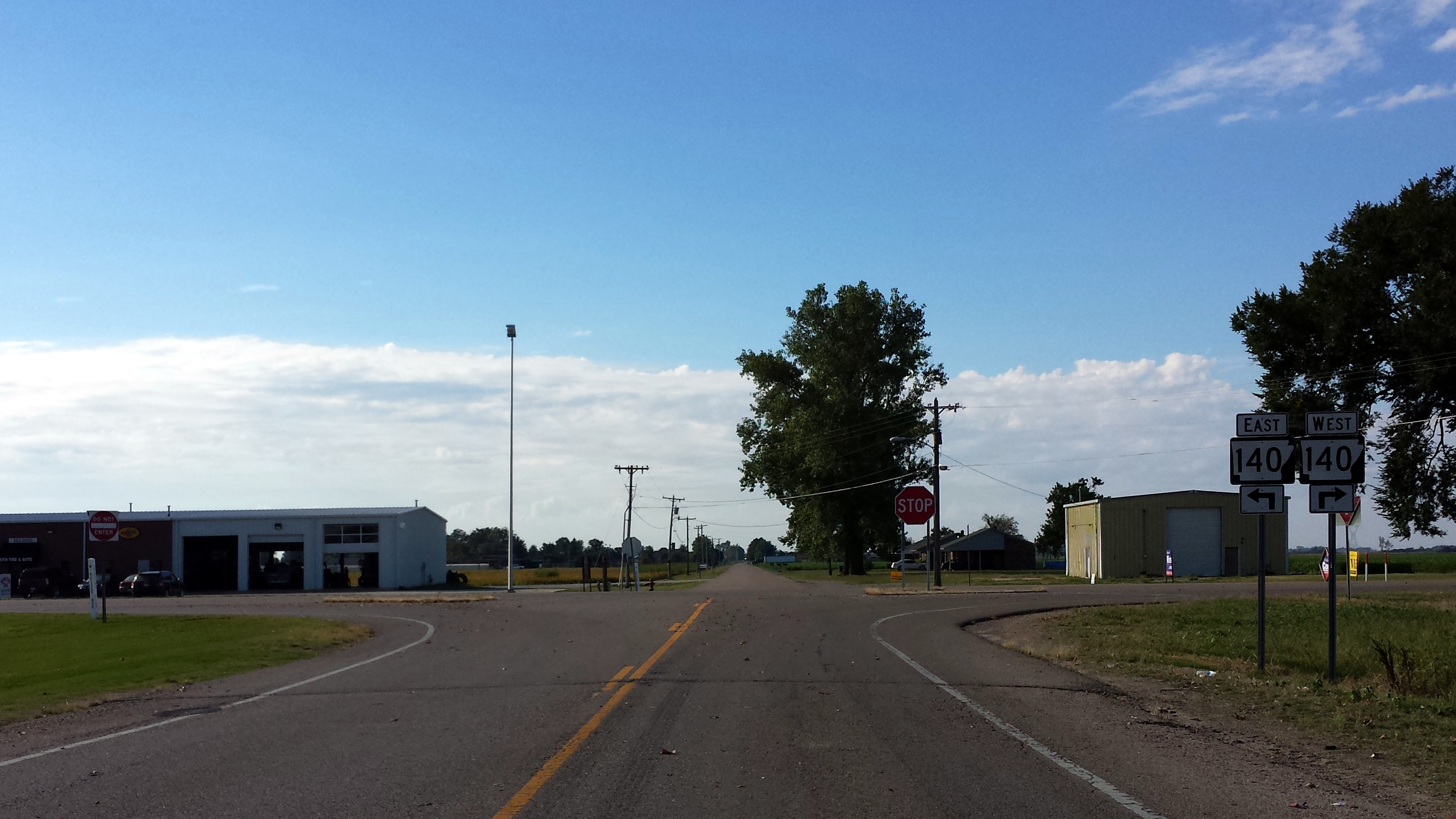 Highway 119Y ends at Highway 140 in Osceola, AR